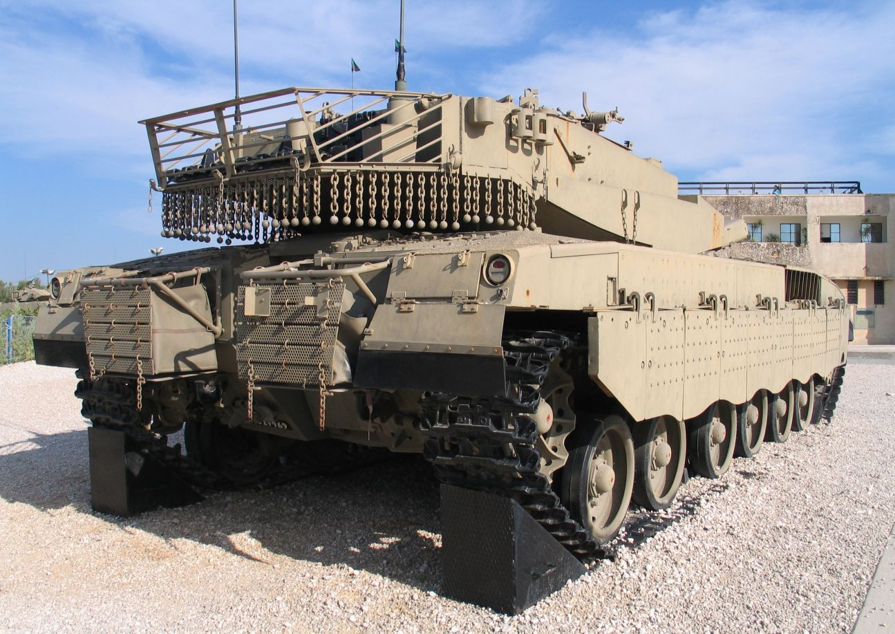 Description: Israeli Merkava Mk III MBT in Yad la-Shiryon Museum, Israel. 2005. Source: Photo by me, User:Bukvoed.